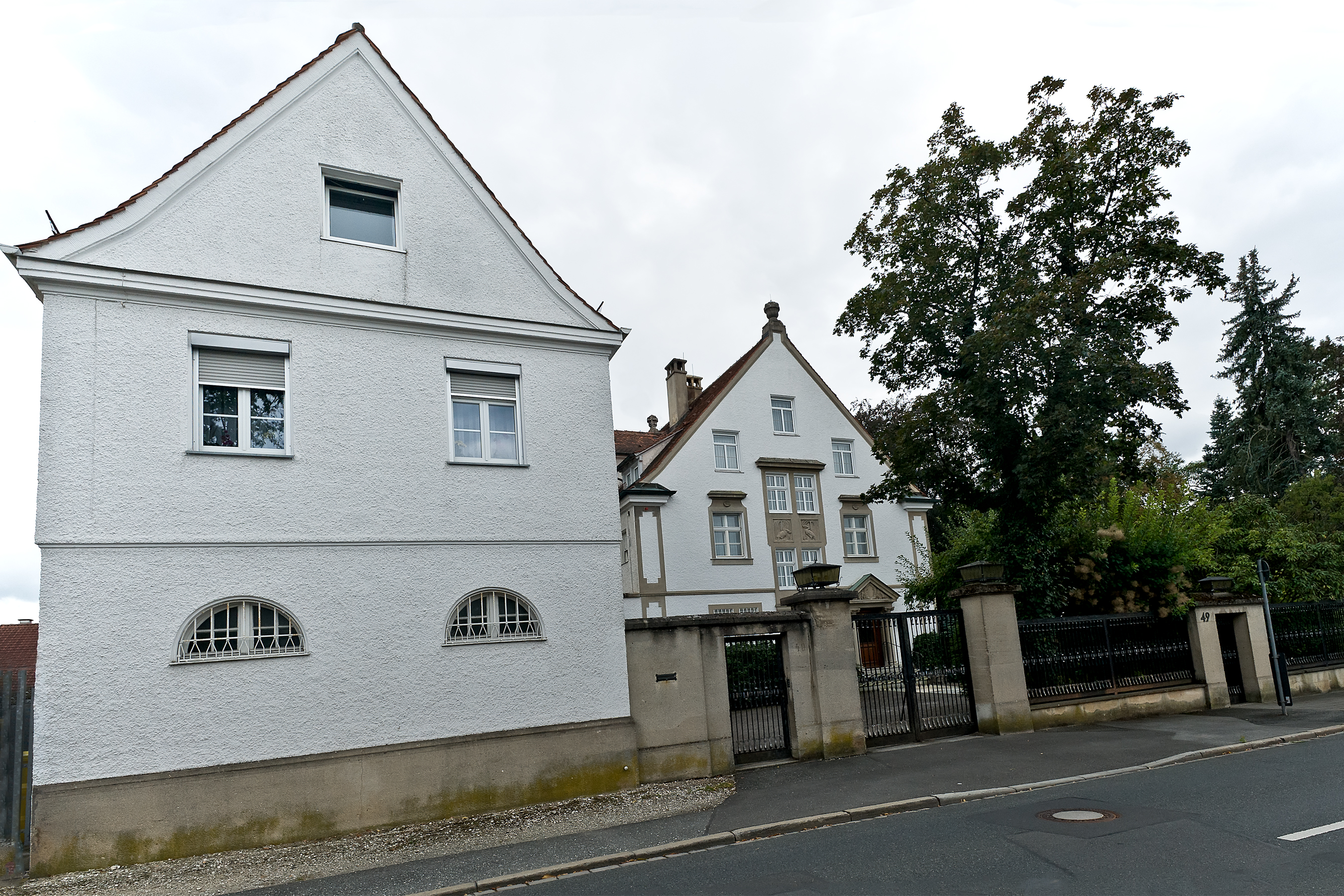 This is a photograph of an architectural monument.